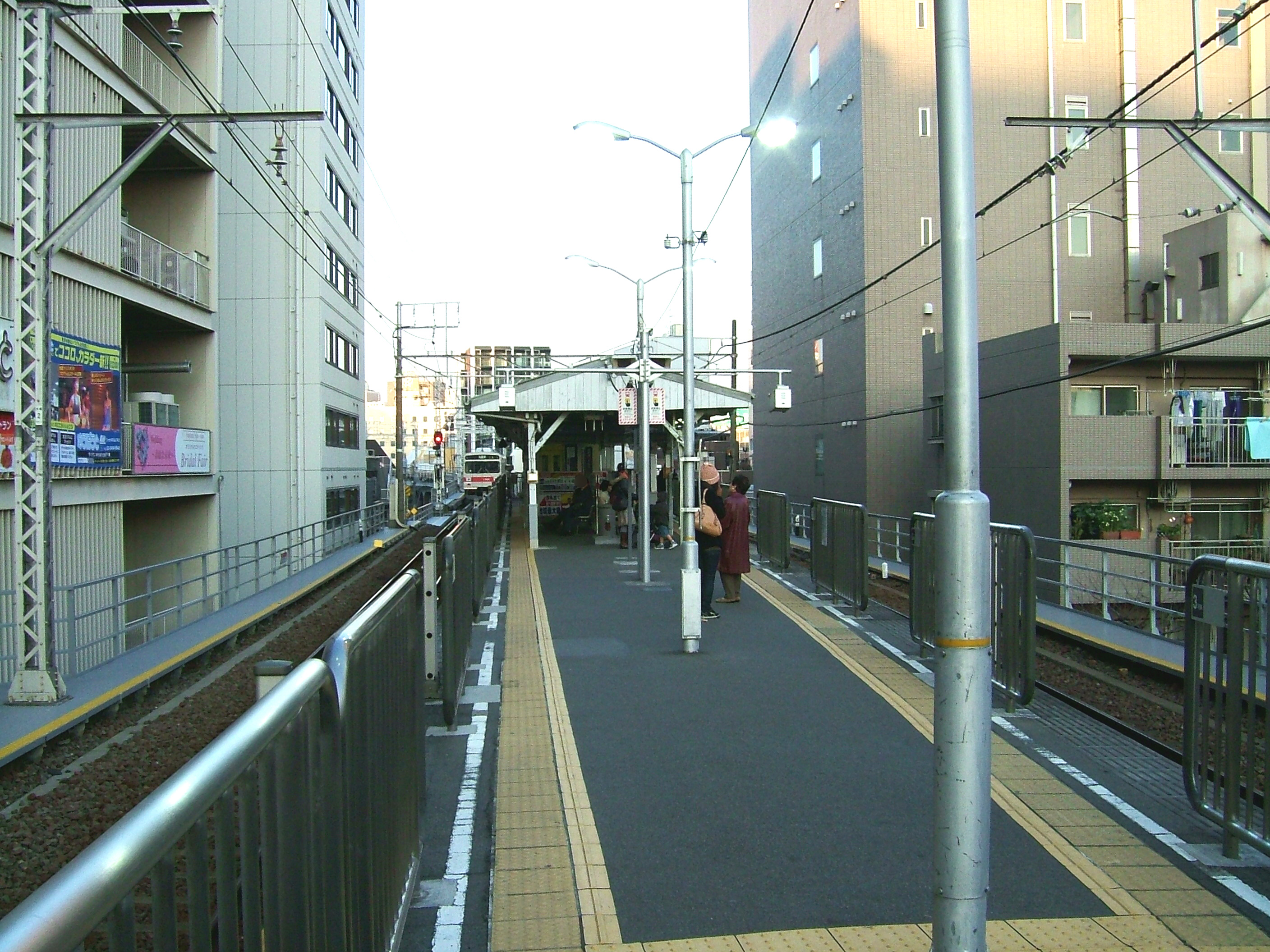 Ōsaki-Hirokōji Station platform